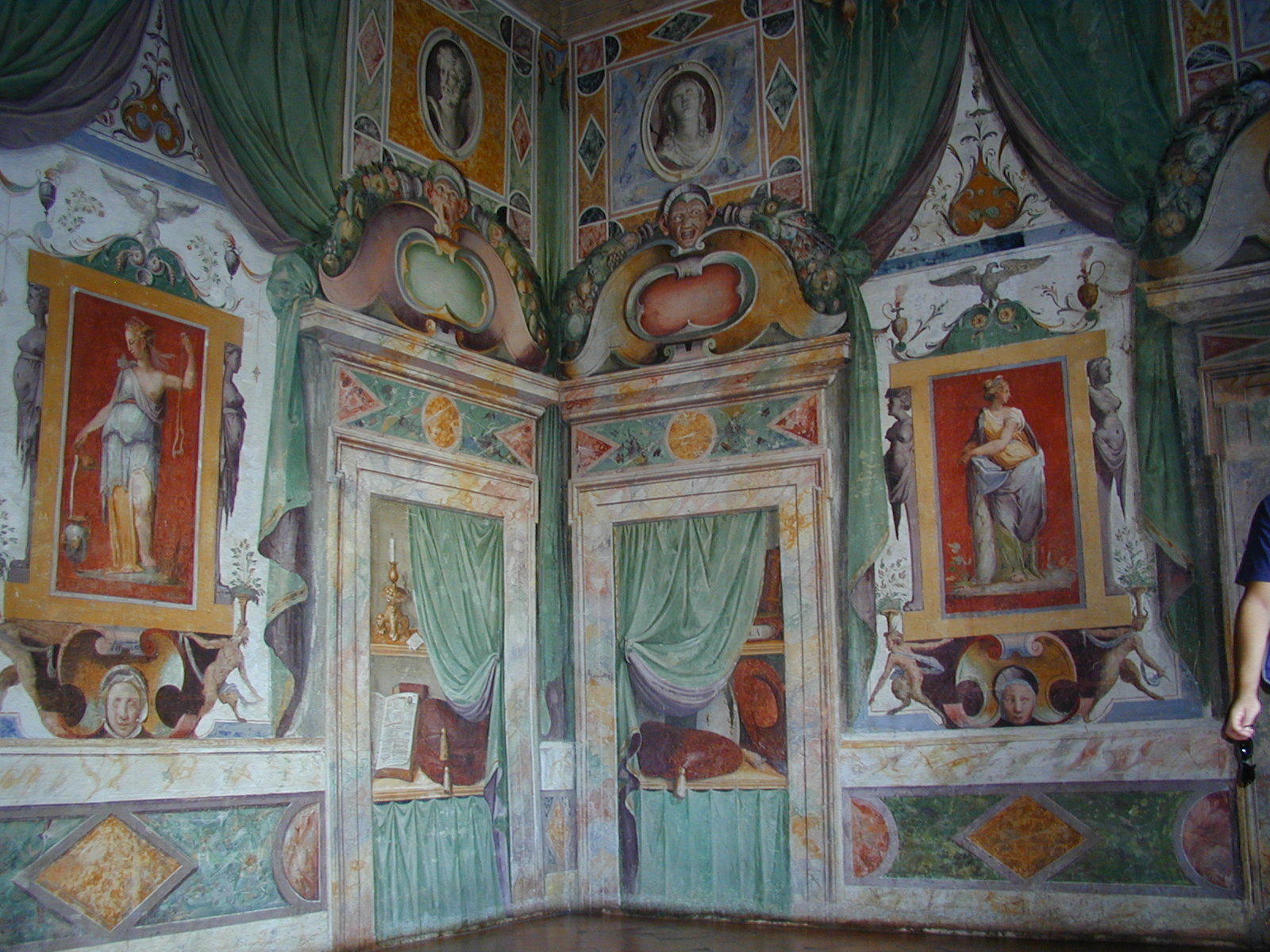 noble apartment, hall of Glory